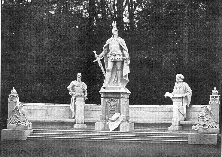 Monument-group № 14 in the former Siegesallee in Berlin commemorating to Brandenburg’s Margrave and Elector (1378–1397, 1411–1415) Sigismund, Holy Roman Emperor. The bust on the left commemorates to the Landeshauptmann Lippold von Bredow, and the bust on the right to Berlin’s Burgomaster Bernd Ryke. Sculptor: Eugen Börmel, the sculpture was inaugurated on 6 May 1900.